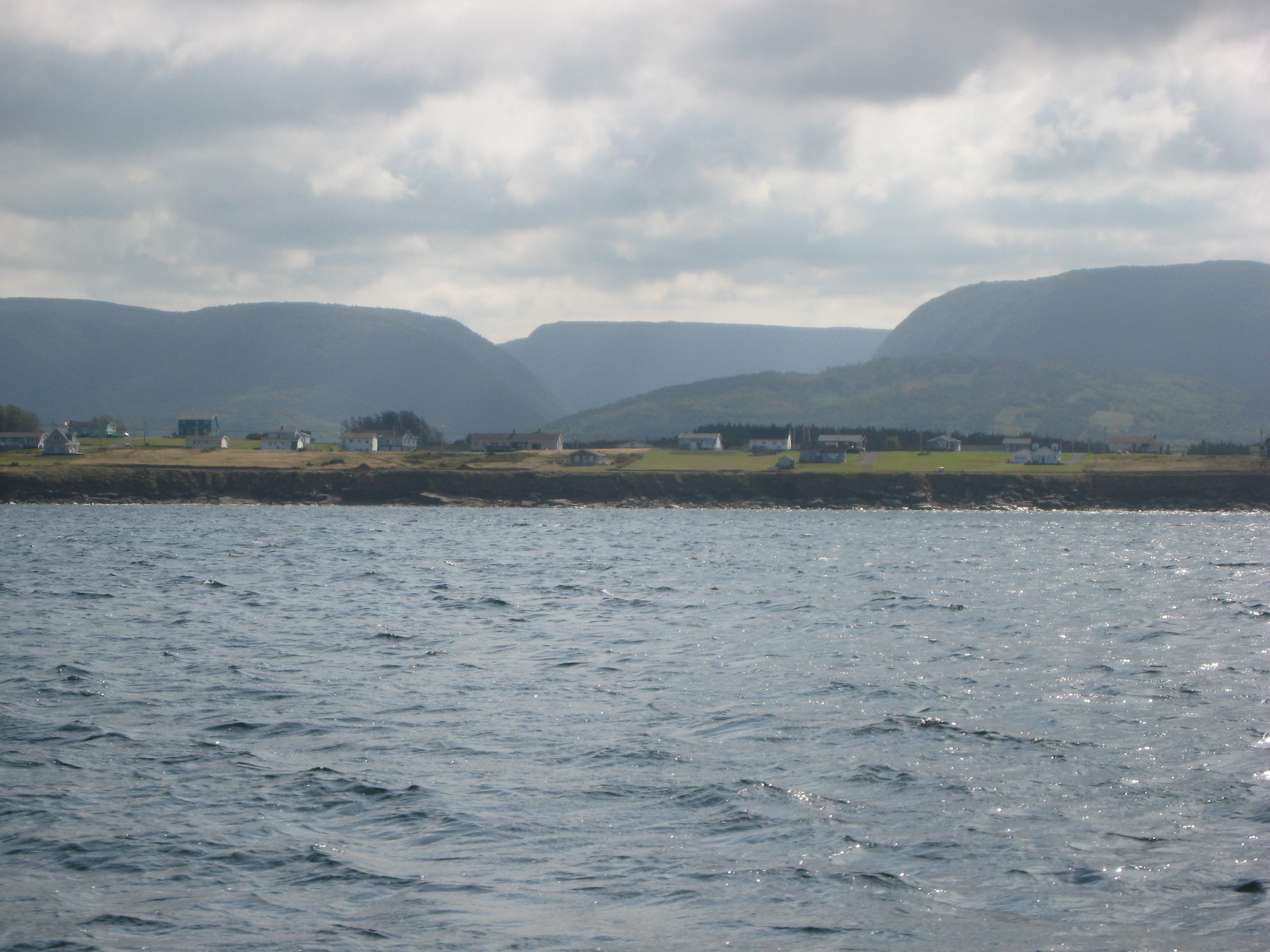 Whale watching out of Cheticamp